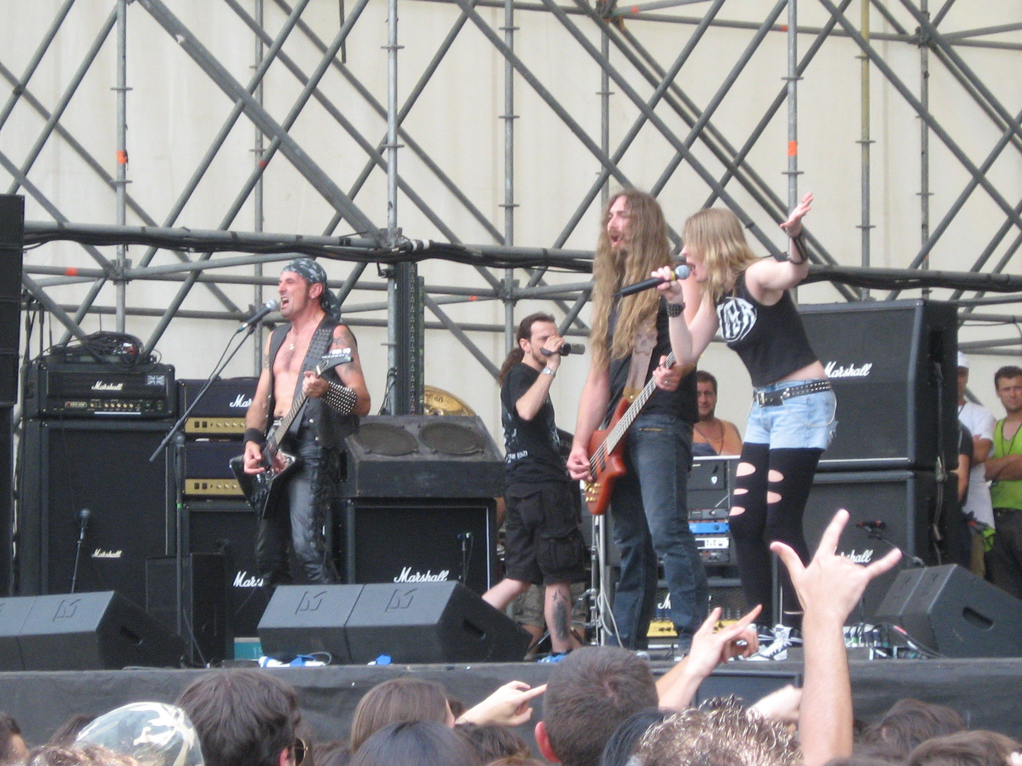 White Skull in concert at Rockin field festival, Idroscalo, Milan (26 july 2008)